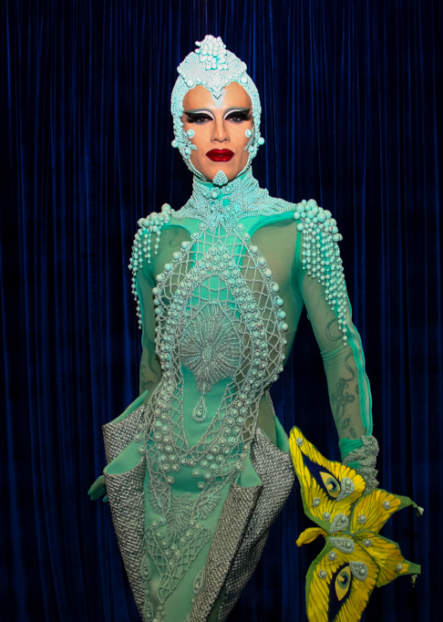 Sasha Velour at RuPaul's DragCon LA 2018